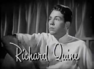 Richard Quine - trailer for the film Dr. Gillespie's New Assistant (1942)